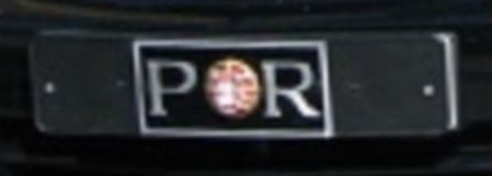 license plate of the president of Portugal